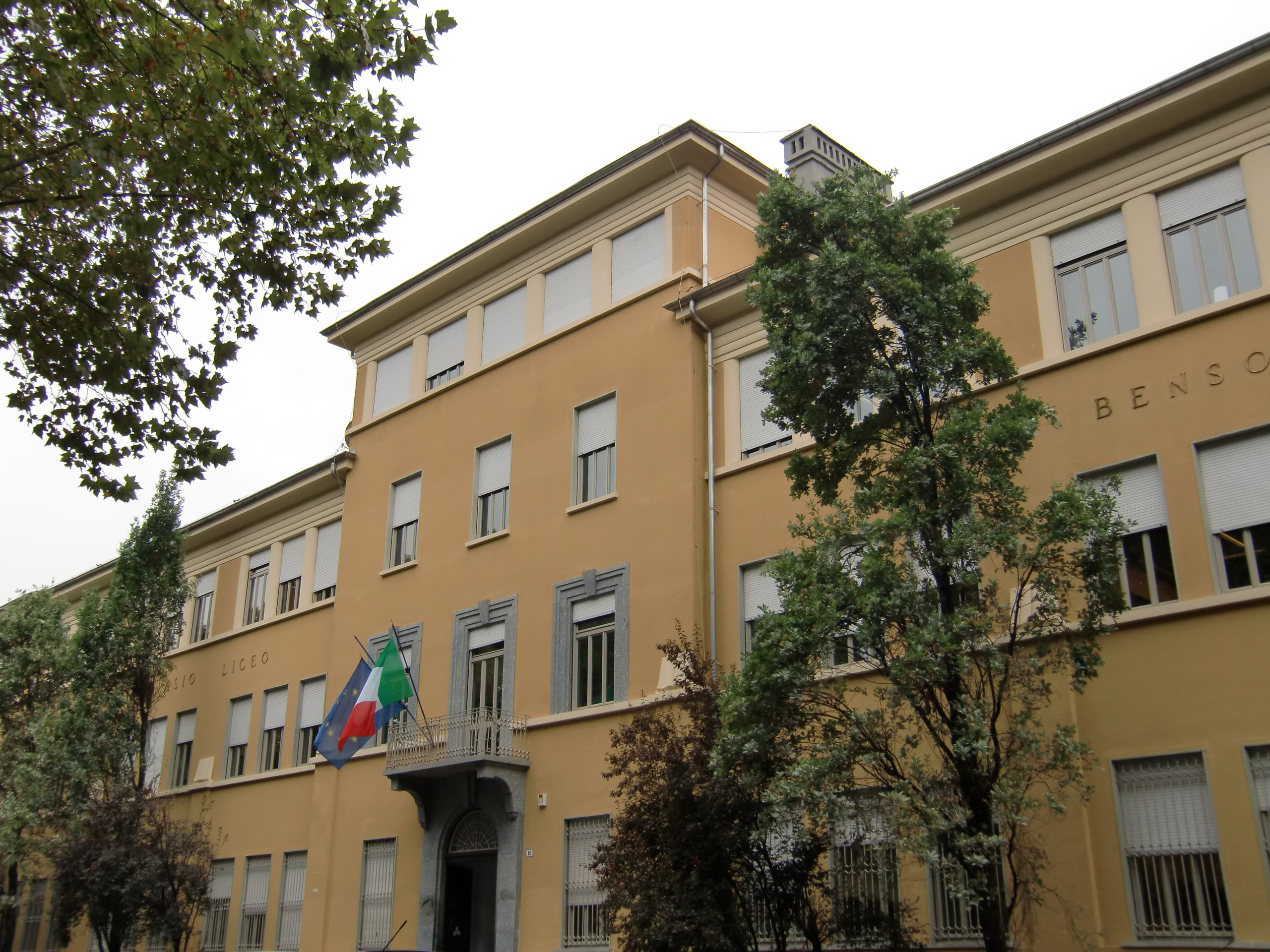 The renewed front of the "Camillo Benso di Cavour" classic high school, 15, Tassoni Avenue, Turin.